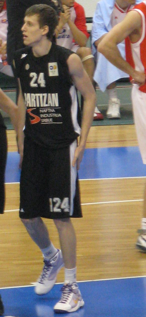 Jan Vesely